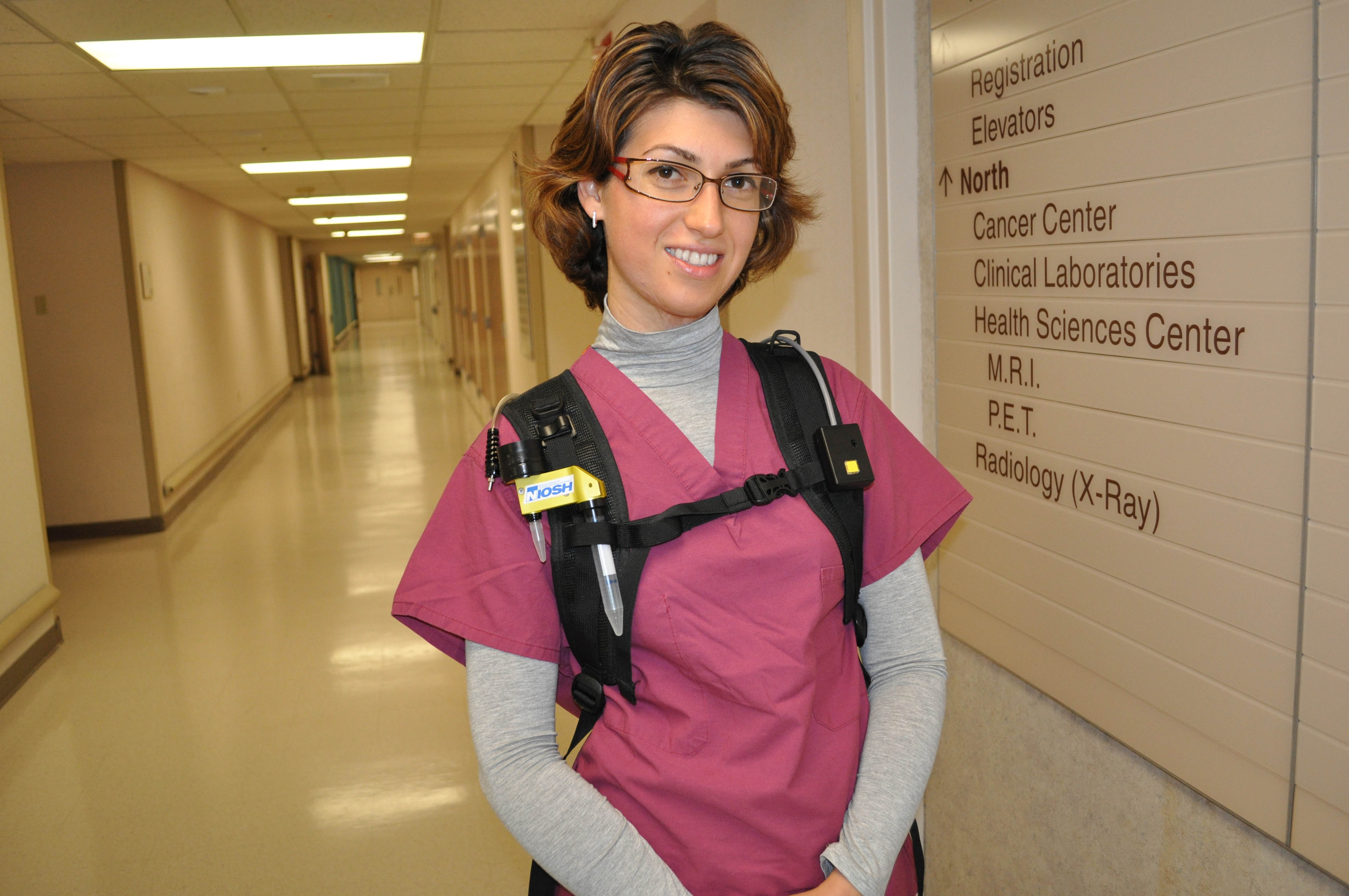 This picture shows the NIOSH aerosol sampler as it was worn by healthcare workers during a study of airborne influenza. The inlet of the sampler is close to the mouth and nose of the worker, in what is called the worker’s “breathing zone”. This ensures that the sampler is collecting aerosol particles representative of those that the worker is breathing. The sampler is attached to the strap of a backpack that contains a vacuum pump to pull air through the sampler.